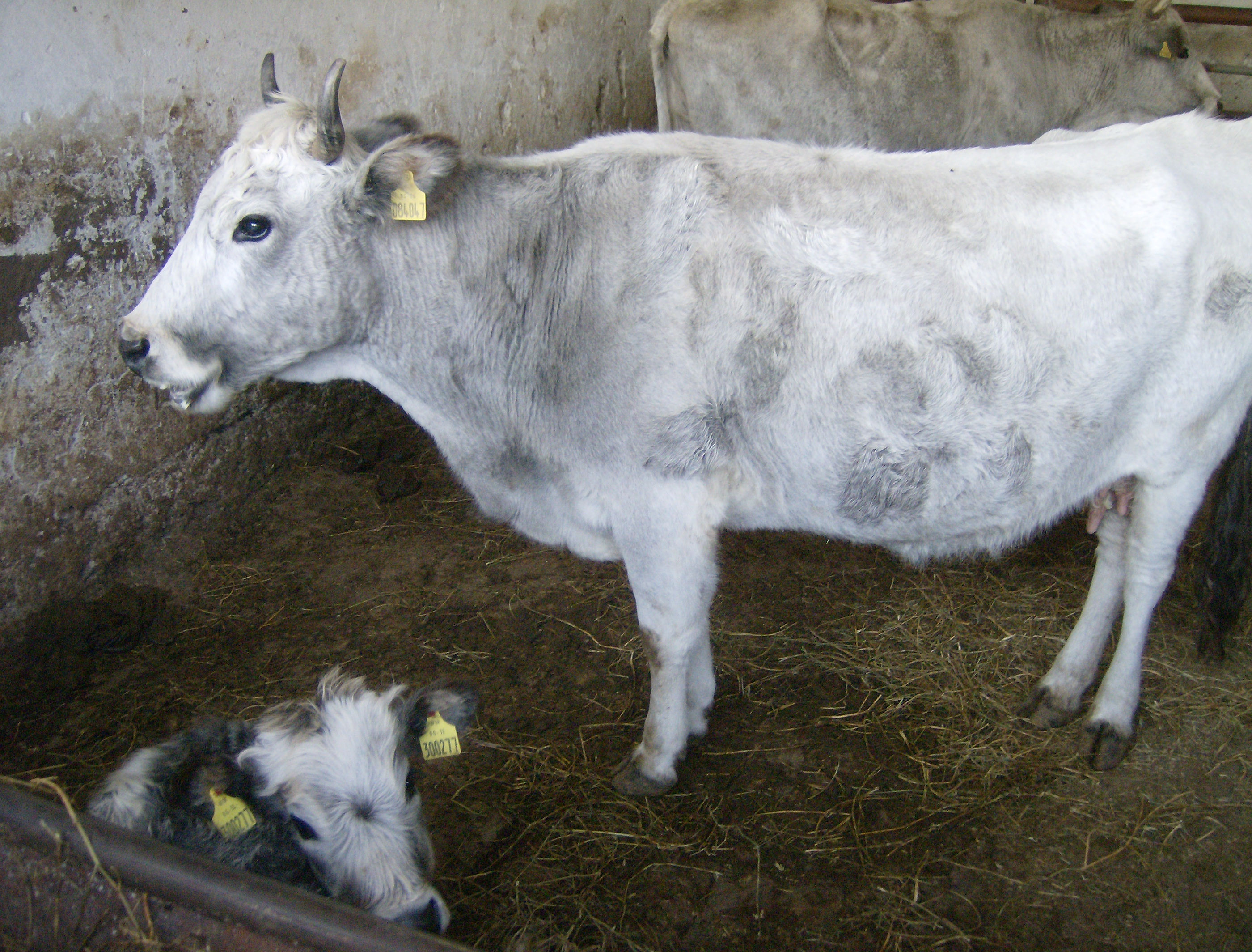 Bulgarian gray cattle